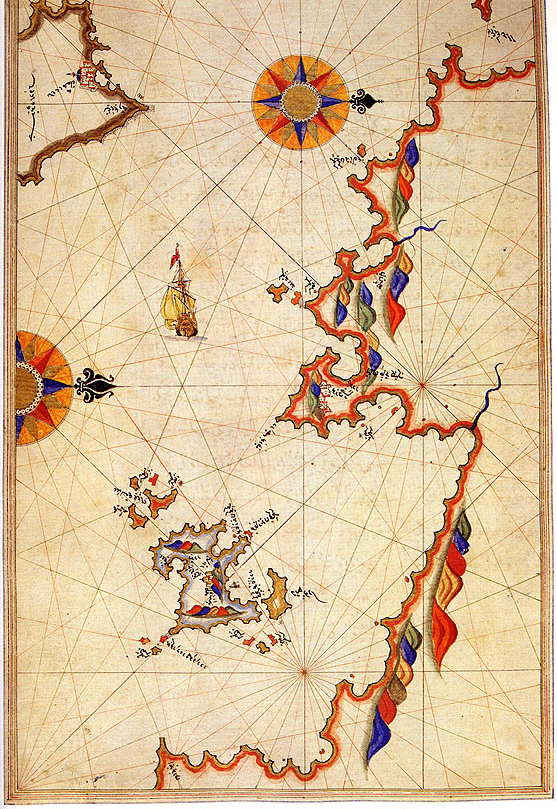 Cape Bozburun near Marmaris and Datça in Turkey on the Kitab-ı Bahriye (Book of Navigation) by Piri Reis